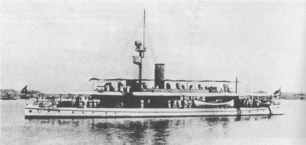 The German gunboat SMS Tsingtau.